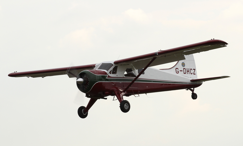 De Havilland Canada DHC-2 Beaver Mk1 G-DHCZ